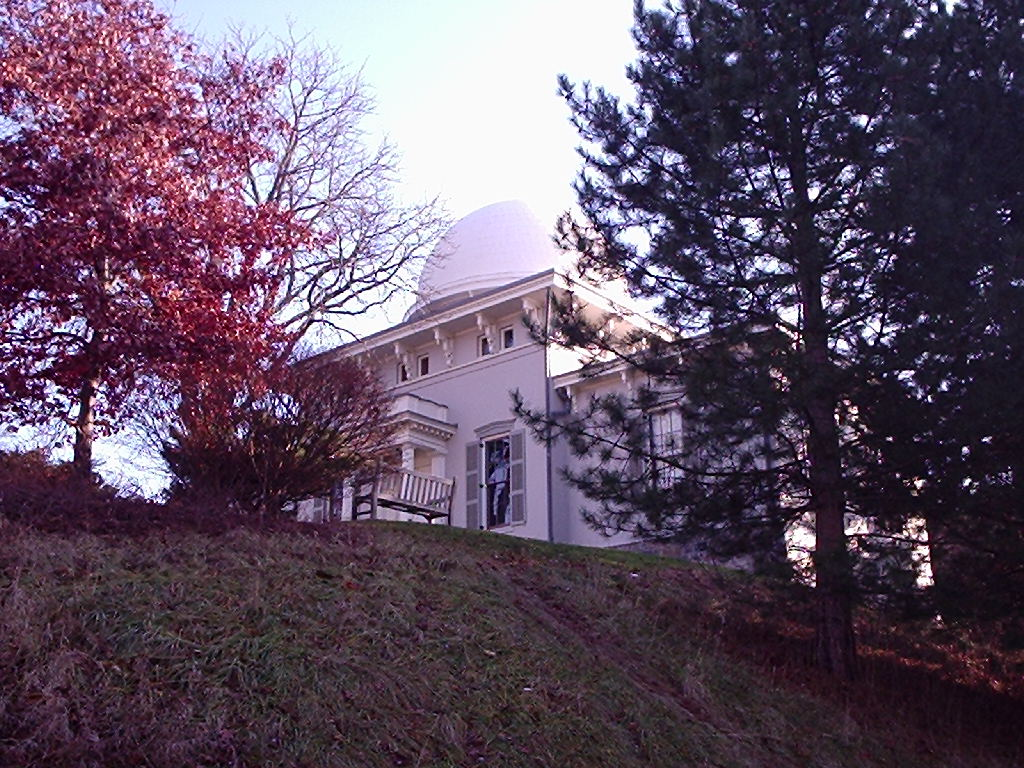 Detroit Observatory at the University of Michigan. Taken January 8, 2006.